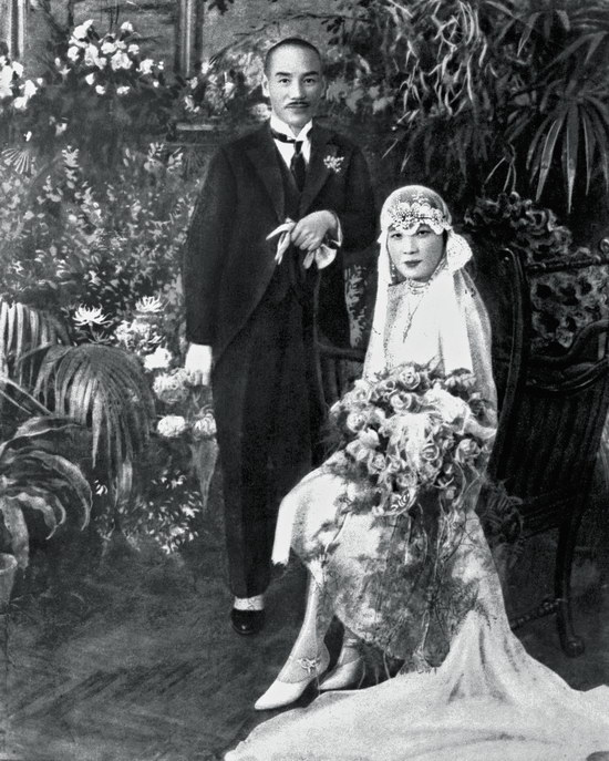 1 Decenber 1927 Chiang Kai-shek and Soong May-ling wedding ceremony in Shanghai. 1927年12月1日,蒋介石与宋美龄在上海举行婚礼。中华照相馆是上海最早的照相馆之一，老板是宋子文的同学，因此当时上海的政要、名人都热衷于在中华照相馆照相。而中华照相馆最得意的摄影作品之一，就是为蒋介石和宋美龄拍摄的结婚照